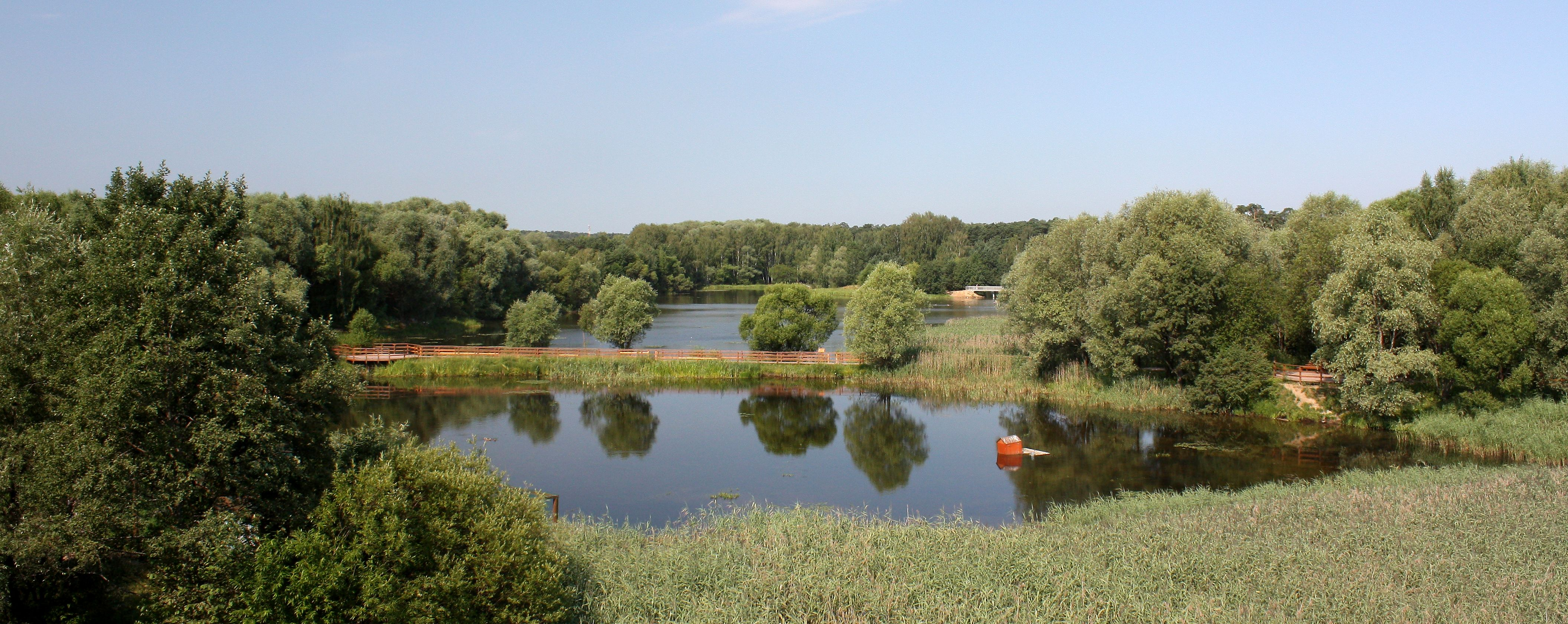 Moscow, Serebryany Bor. Lake Bezdonnoe (Lake Bottomless). View from a viewing tower